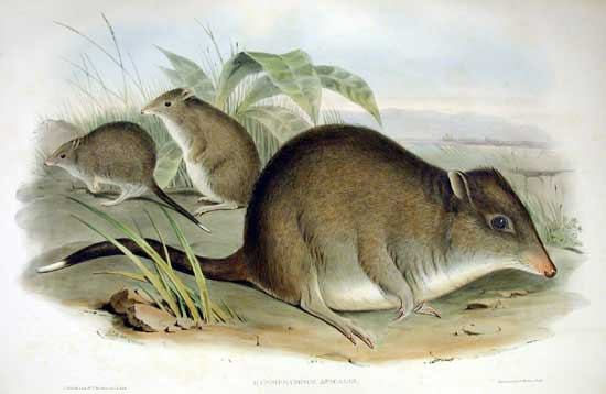 Potorous tridactylus (orig. Hypsiprymnus apicalis)